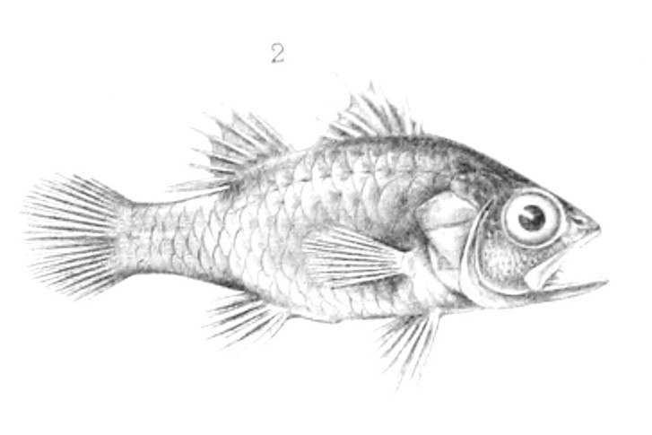 Therapon elongatus = Fowleria variegata